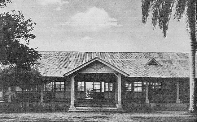 Nan'yo-cho Mokko-Totei Yoseijo(Carpenter Vocational Training School)